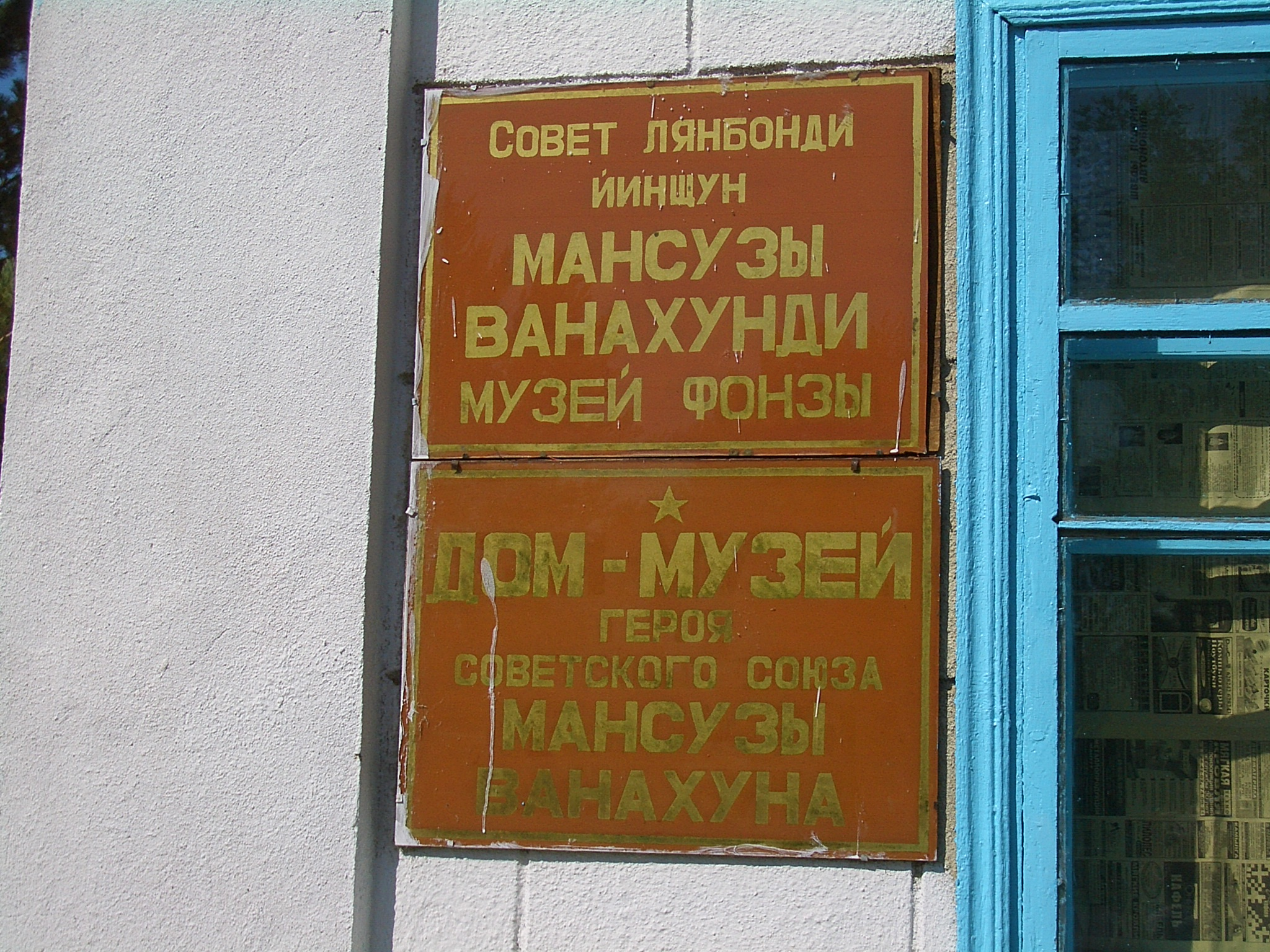 The house of the war hero Mansuzi Wanahun in Milyanfan village, Kyrgyzstan is preserved as a museum. It is located in the village's public park. Note the bilingual sign in Dungan and Russian. For the Dungan text (Совет Лянбонди Йинщун Мансузы Ванахунди музей фонзы, Sovet Lyanbondi Yinshchun Mansuzy Vanakhundi muzey fonzy) the closest Pinyin equivalent for Standard Mandarin would be "Sūwéi'āi Liánbāng-de Yīngxióng Mànsùzi·Wáng'āhōng-de bówùguǎn (muzey, Russian loan word) fángzi"